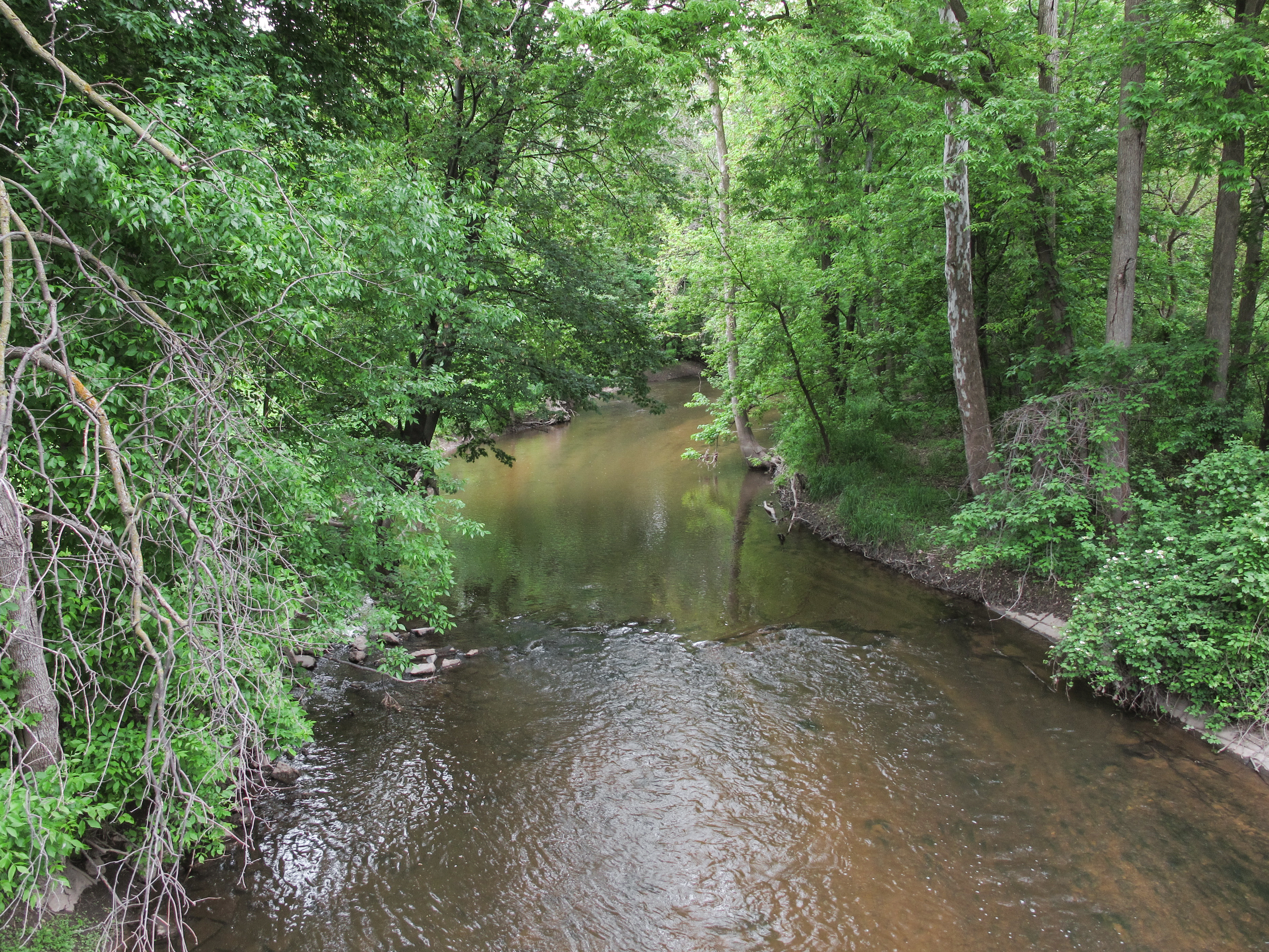 Sycamore Creek as viewed from a pedestrian/bicycle bridge on the Lansing River Trail in Lansing, Michigan